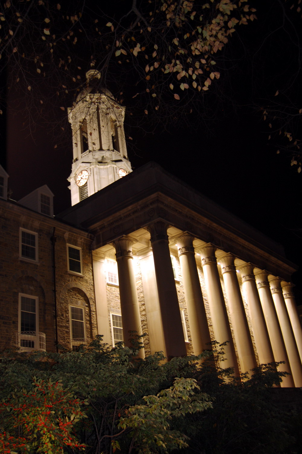 Exterior view of Old Main on the University Park campus of the Pennsylvania State University